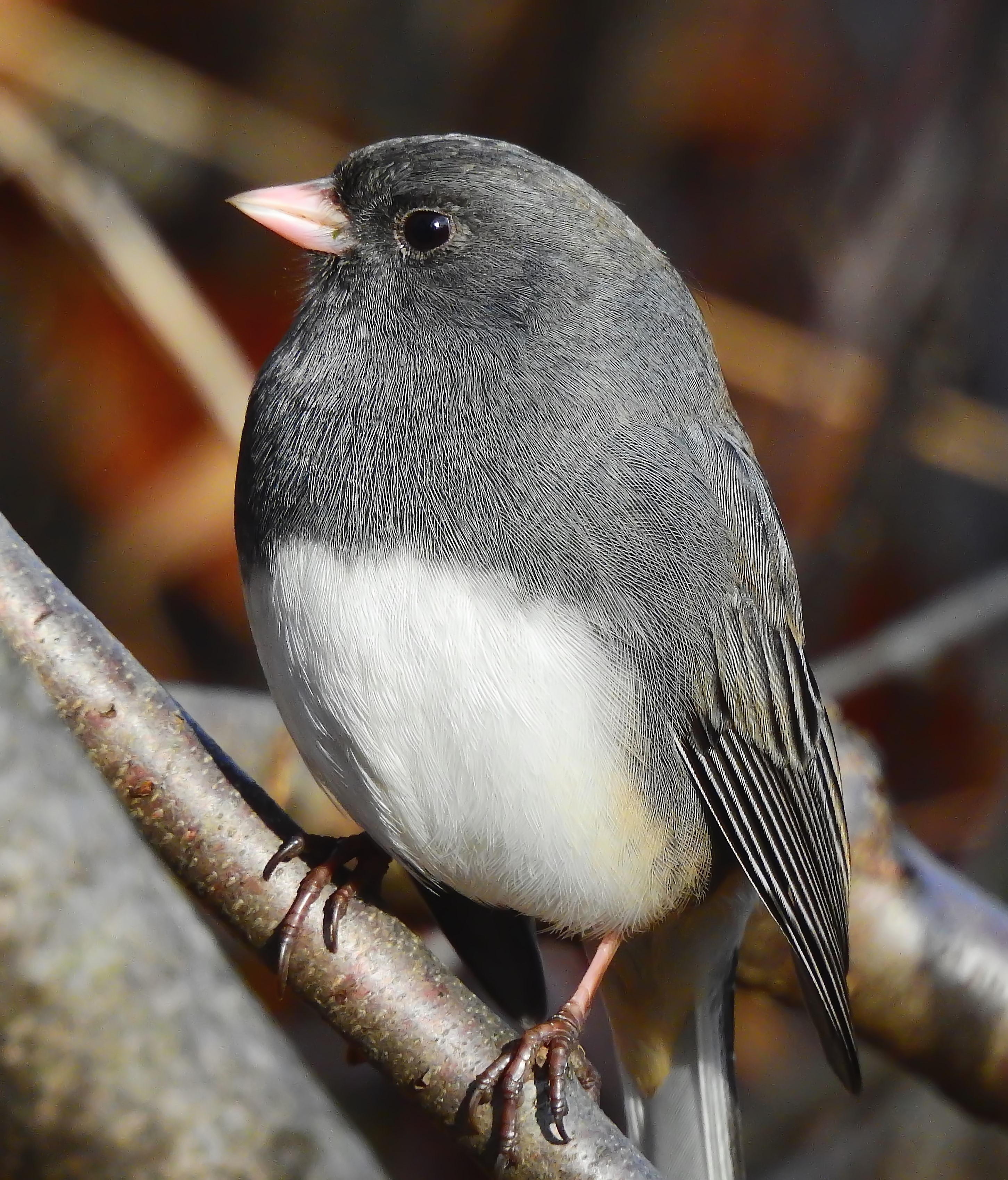 Dark-eyed junco, Upper Mississippi River Wildlife Refuge